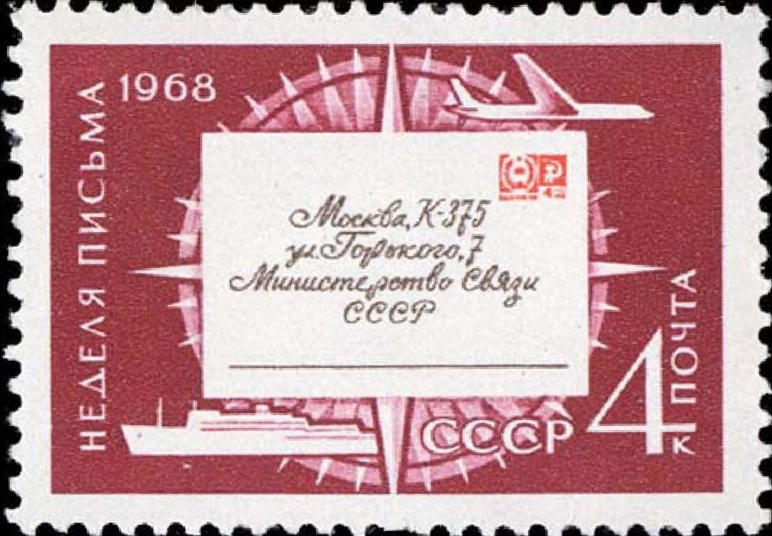 USSR stamp: Envelope, Modern Postal Transport and Compass Rose (Letter Writing Week, 10.7–13). Series: Stamp Day and the Day of the Collector. Letter Writing Week